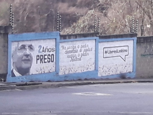 Mural exigiendo la libertad de Antonio Ledezma en Caracas